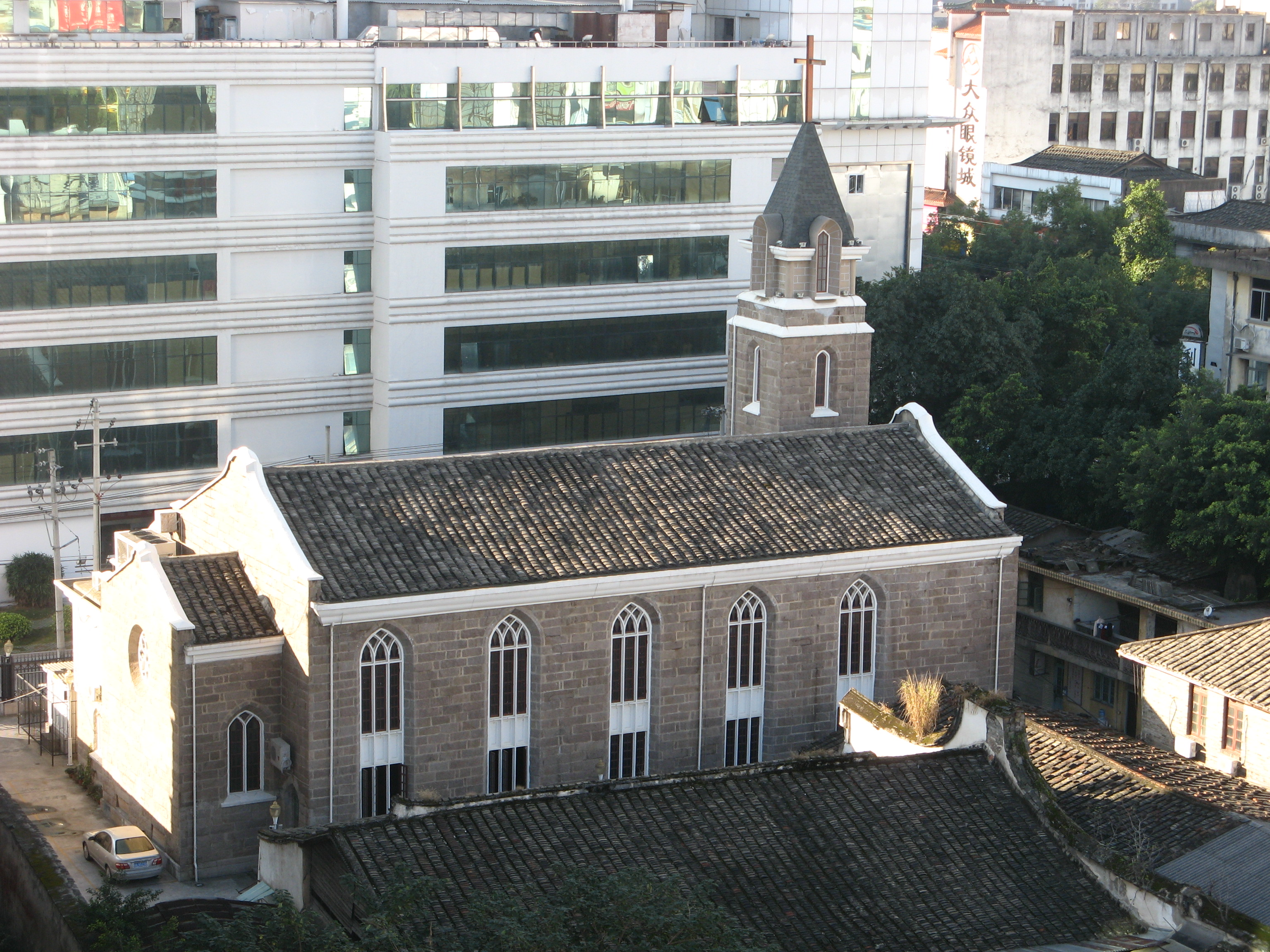 Flower Lane Church, Fuzhou